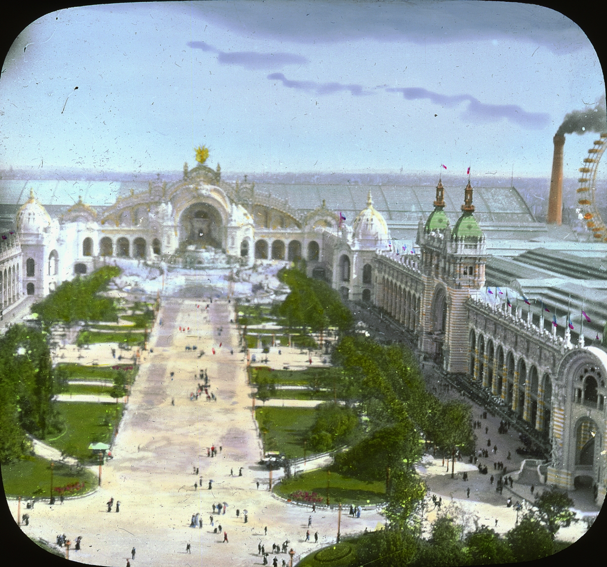 Paris Exposition: Chateau of Water and Palace of Electricity, aerial view, Paris, France, 1900. Aerial view of the Chateau d'Eau with Palais de l'Electricite behind it. Brooklyn Museum Archives, Goodyear Archival Collection (S03_06_01_015 image 1923). It helps us to know how our visitors work with our images, so if you use it, we'd love to know how! Drop us a line by leaving a comment here or email our archivist